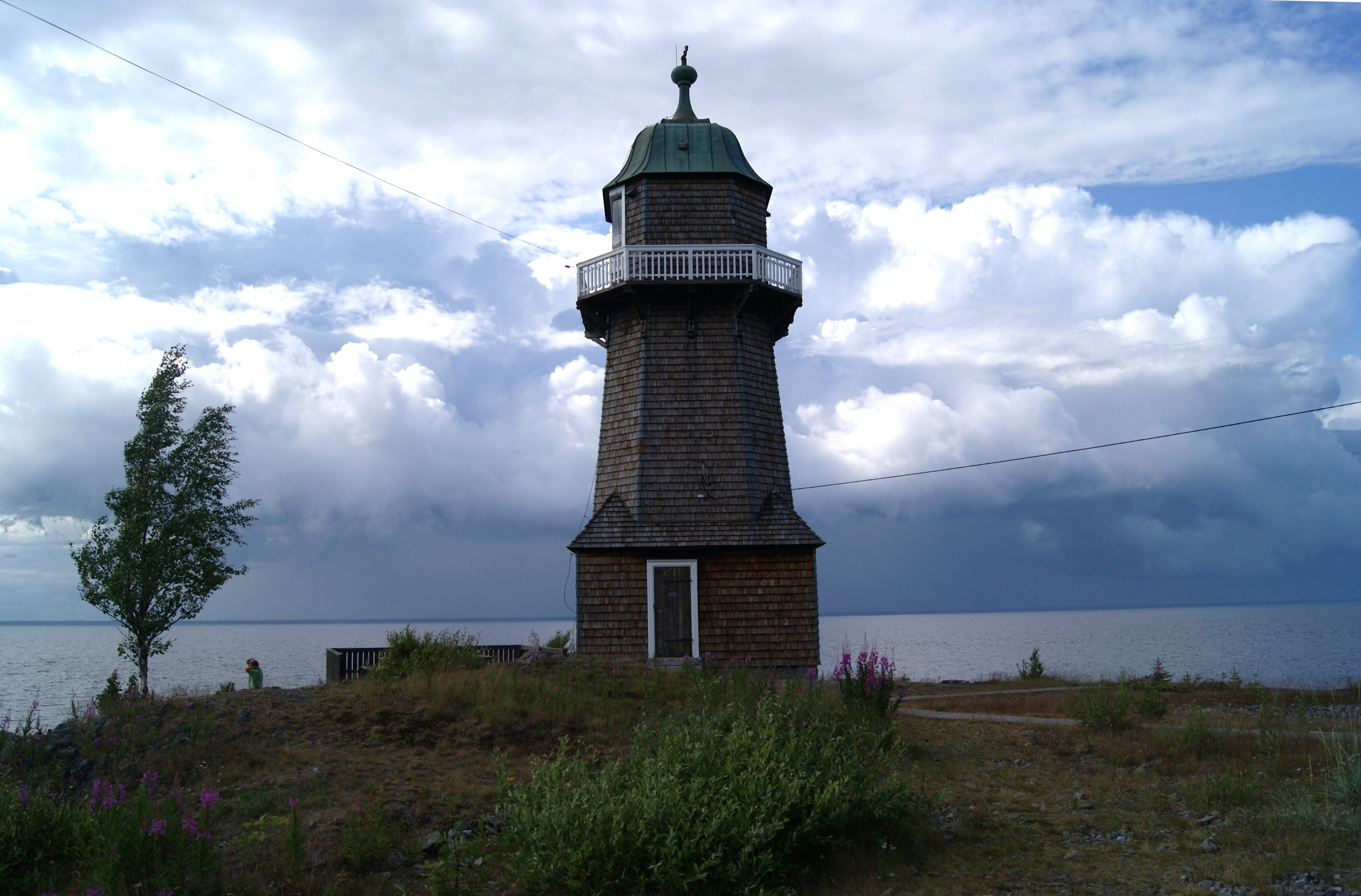 Berguddens lighthouse was built in 1896, but an older lighthouse was standing at the same place as early as 1884. The lighthouse got electricity in 1950. The lighthouse is 17.8 meters high. The picture was taken a few minutes before a heavy rain reached the lighthouse.